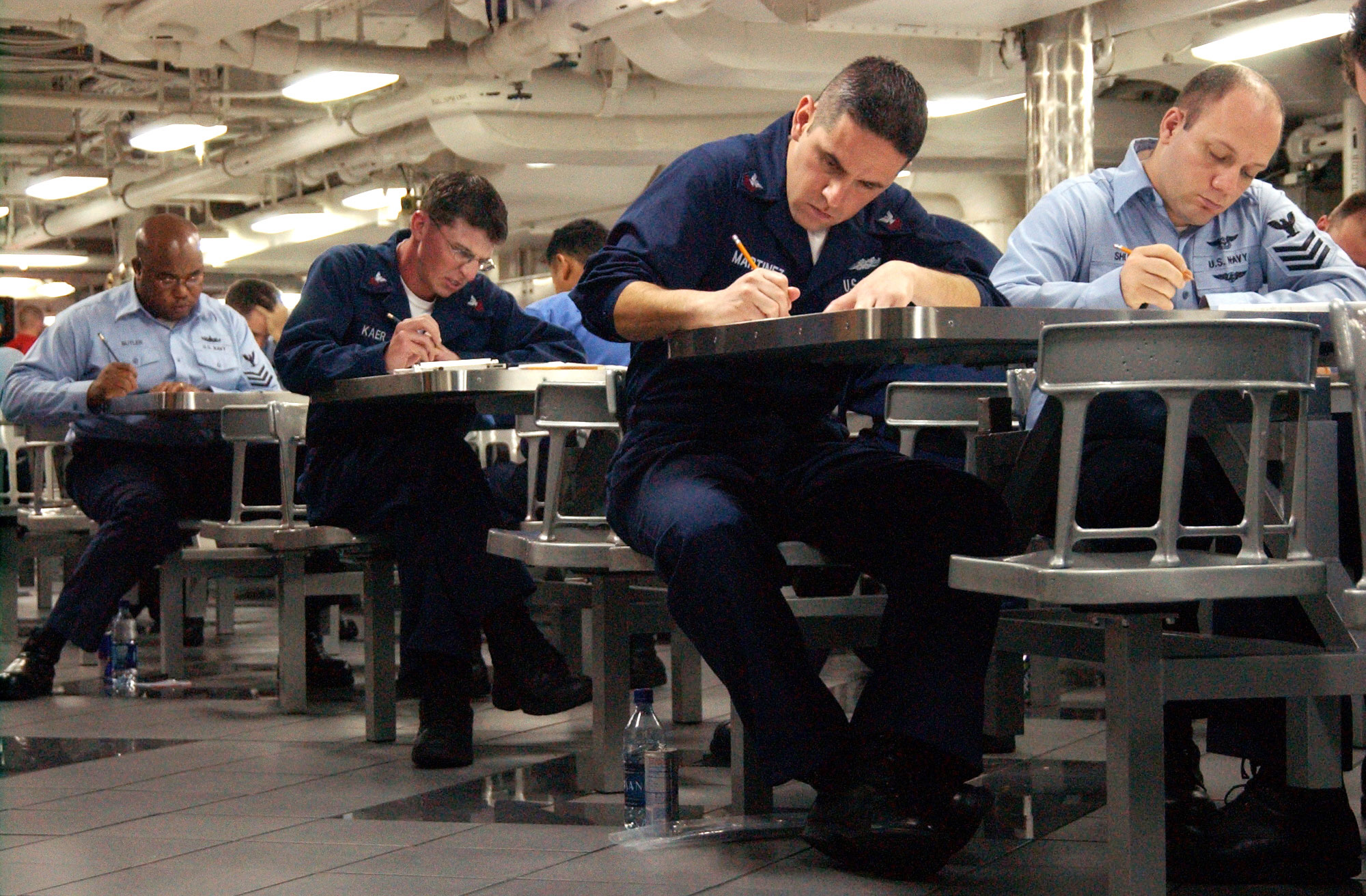 Pacific Ocean (Jan. 19, 2006) - First class petty officers stationed aboard the Nimitz-class aircraft carrier USS Ronald Reagan (CVN 76) begin to take the three-hour long chief petty officers' (CPO) exam. Each prospective chief must partake in a Navy advancement exam before being considered eligible for the CPO board. Reagan is currently underway on its maiden deployment in support of the global war on terrorism and maritime security operations. U.S. Navy photo by Photographer's Mate 3rd Class Kevin S. O'Brien (RELEASED)